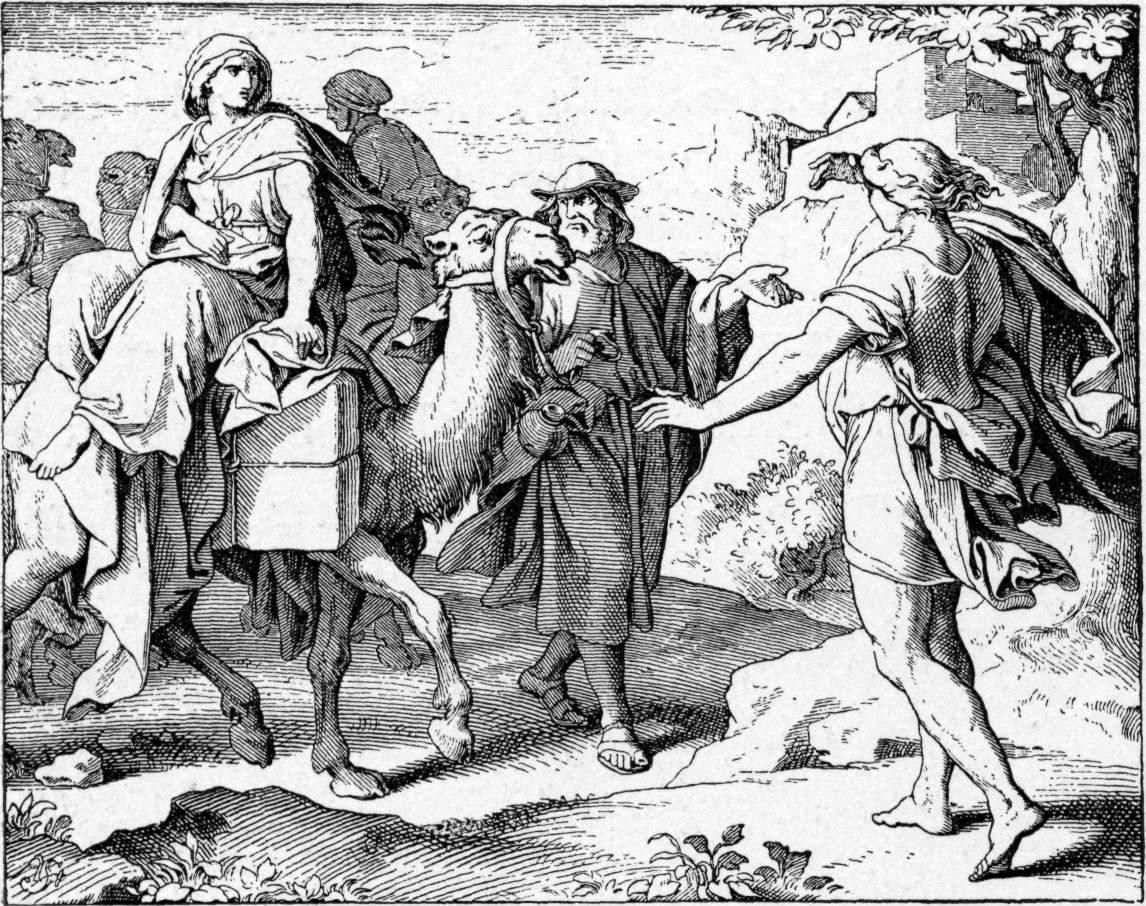 Rebekah has come to the land of Canaan, where Isaac lives. Isaac was walking in the field. He looked up and saw the camels coming. When they came nearer he saw Rebekah. Rebekah came down from the camel, and Isaac brought her into the house. Isaac loved Rebekah, and took her for his wife. Illustration from the 1897 Bible Pictures and What They Teach Us: Containing 400 Illustrations from the Old and New Testaments: With brief descriptions by Charles Foster